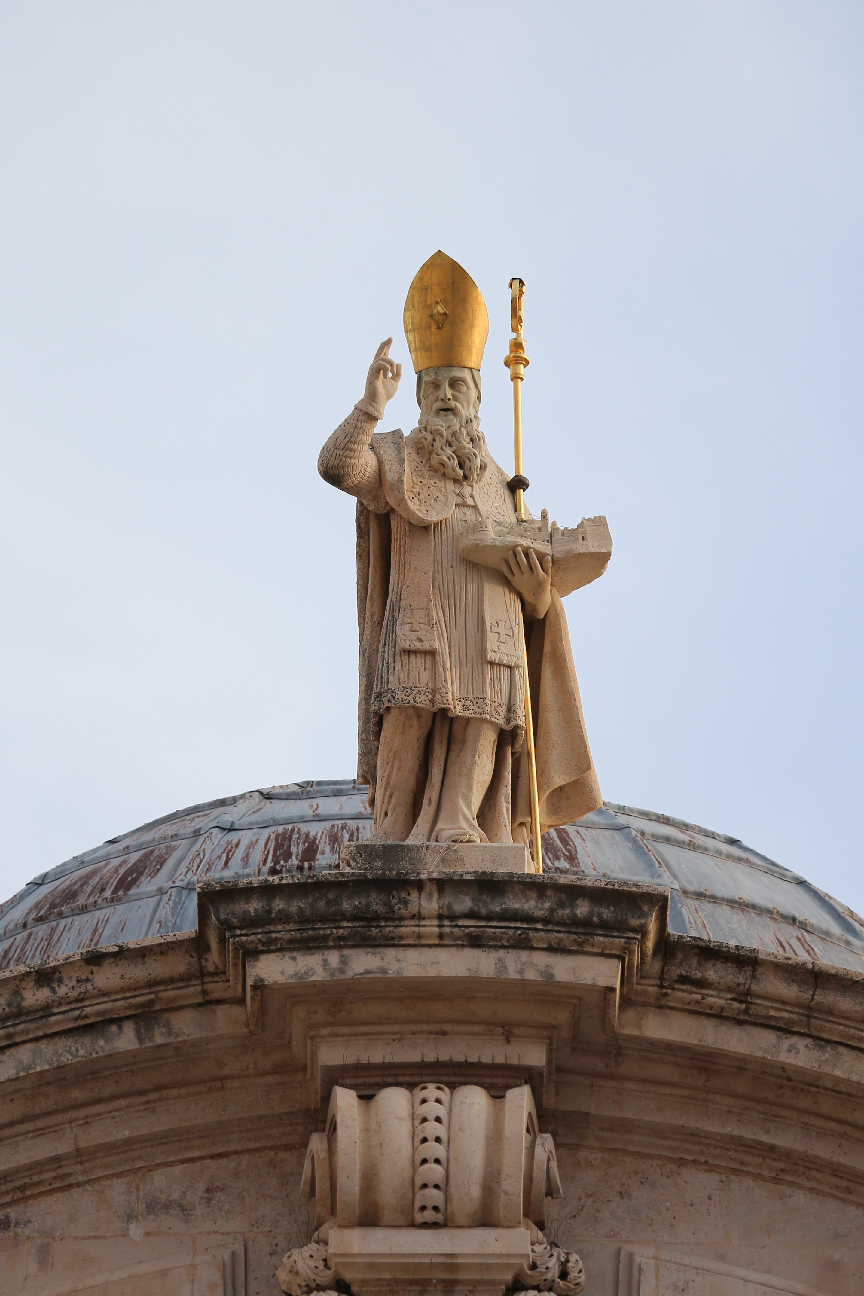 Statue of St. Blaise on Saint Blaise Church, Dubrovnik, Croatia